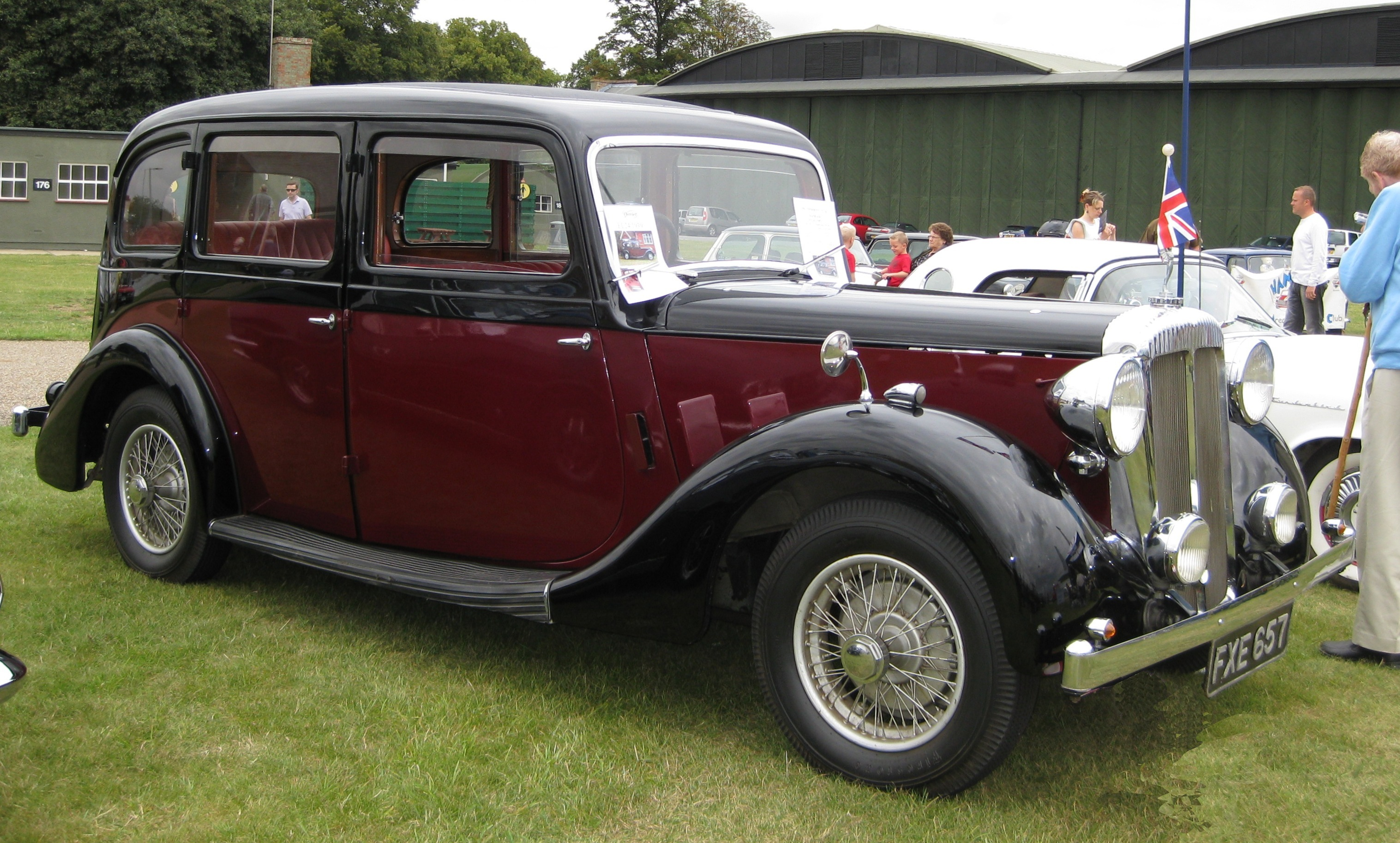 Daimler Limousine built 1939 and extensively rebuilt since